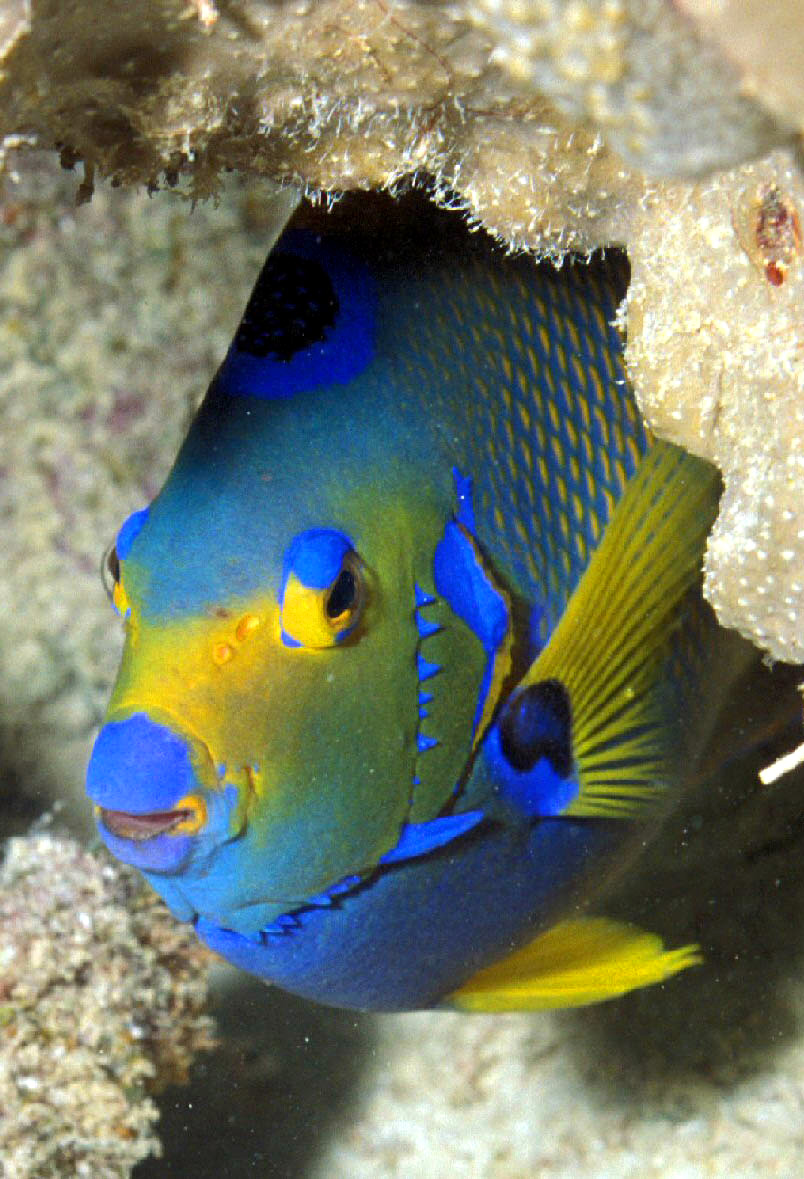 I thought it was cute, the way this beautiful queen angelfish hid itself under this coral ledge. The picture, taken on Alice-in-Wonderland Reef in Bonaire, is cropped about 50% from its original. Don't be shy! You're beautiful!